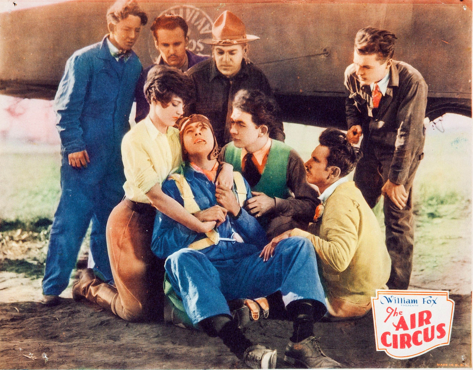 Lobby card for the American film The Air Circus (1928).